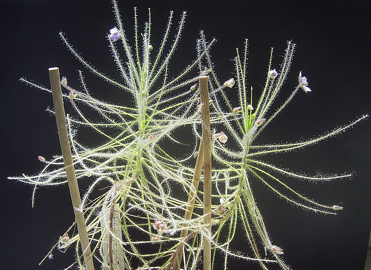 Byblis liniflora habitus Author: Denis Barthel